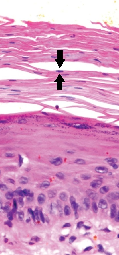 Example of an early actinic keratosis with keratinocyte dysplasia confined to the lower third of the epidermis (200x). There is parakeratosis, with black arrows indicating one of the multiple retained nuclei in the stratum corneum.